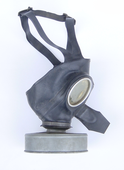 Own work, photo of a german gas mask used during World War II. Mask name:VM-40. If you plan to wear this mask, it is not recommended that you wear this mask with the filter on because filter contains asbestos. Zdjęcie niemieckiej maski przeciwgazowej z okresu II Wojny Światowej.